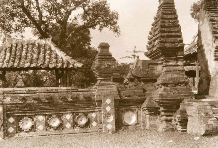 The Kasepuhan kraton, Cheribon